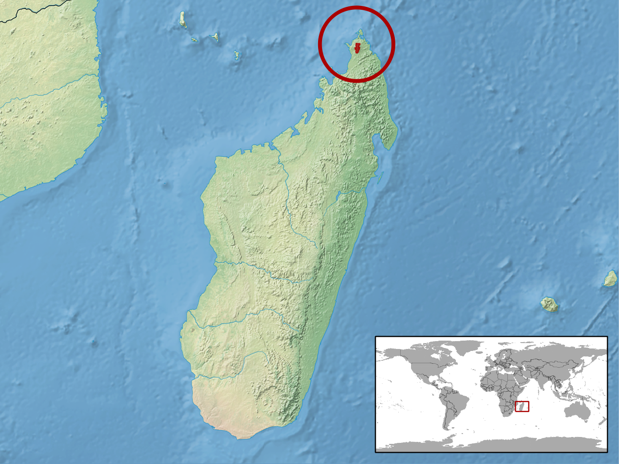 geographic distribution of Brookesia tuberculata (Native: Madagascar)